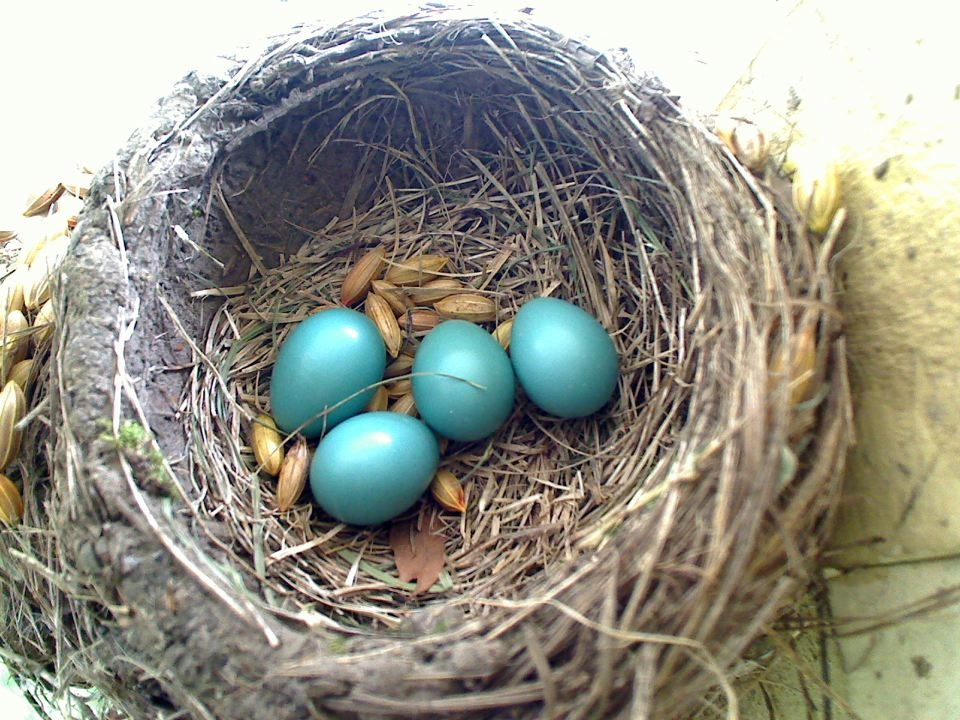 Robin eggs, recorded by an automated device